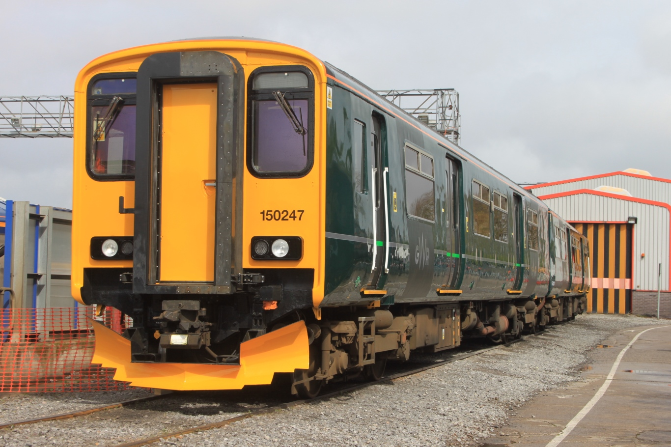 Newly refurbished Great Western Railway unit 150247 outside the wheel lathe shed at St Philip's Marsh depot in Bristol.